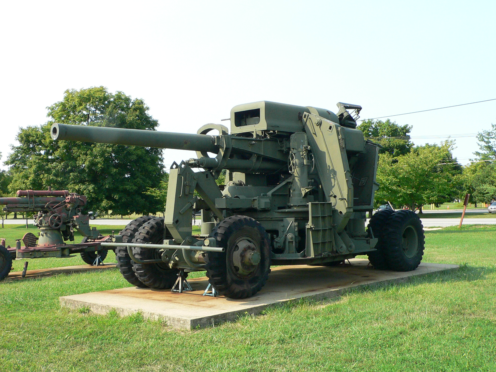 Picture taken by myself, Mark Pellegrini, at the United States Army Ordnance Museum (Aberdeen Proving Ground, MD) on August 14, 2007.